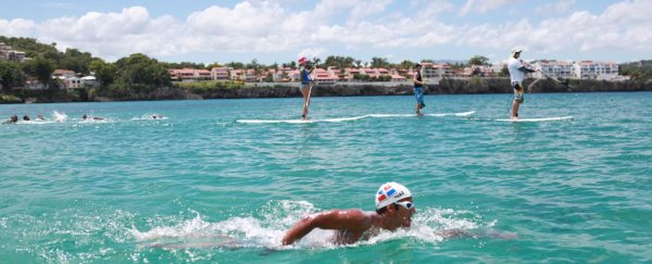 Marcos Díaz Wikipedia